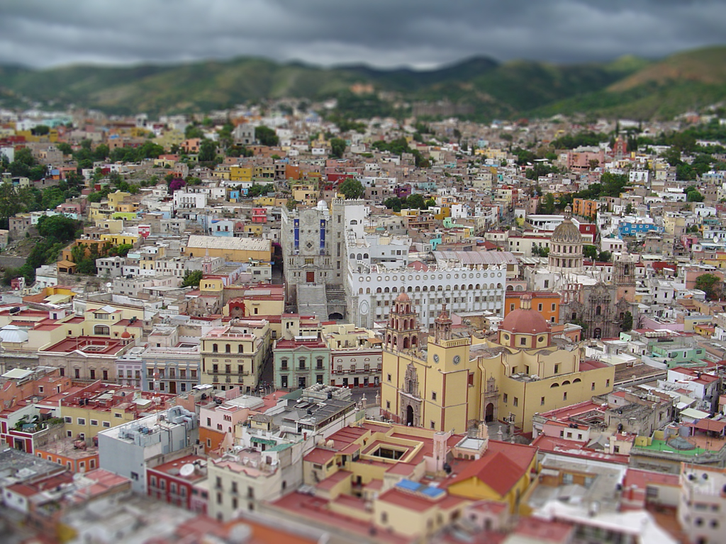 Panoramic view of Guanajuato, Guanajuato, Mexico.